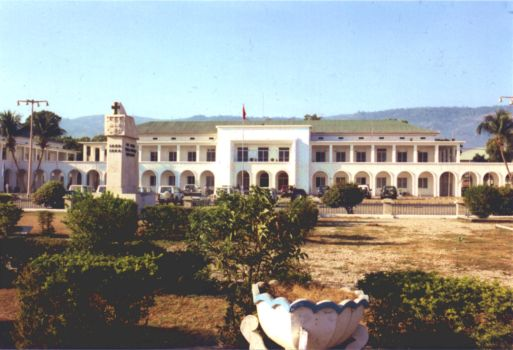 Gouverneur's palace at Dili/Timor-Leste; Seat of the prime minister of Timor-Leste